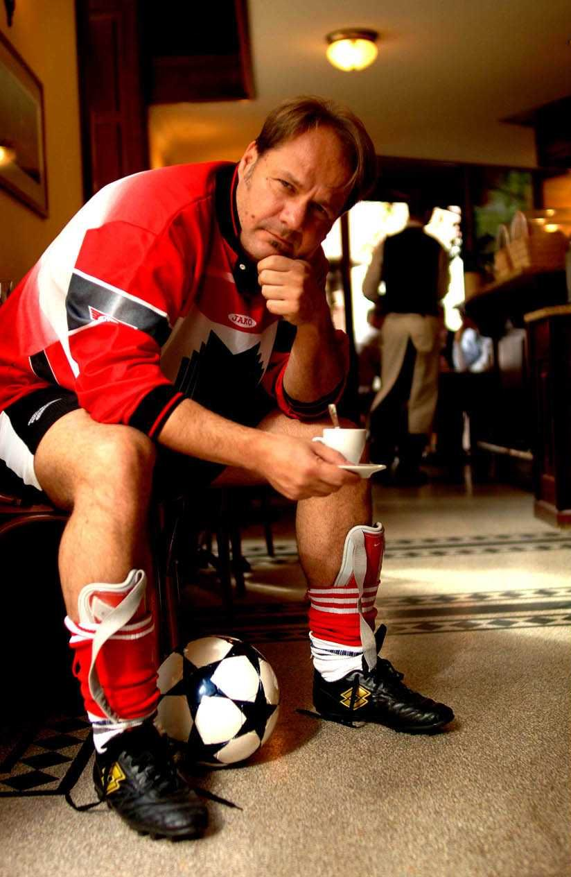 Zoltán Kőrösi hungarian writer.